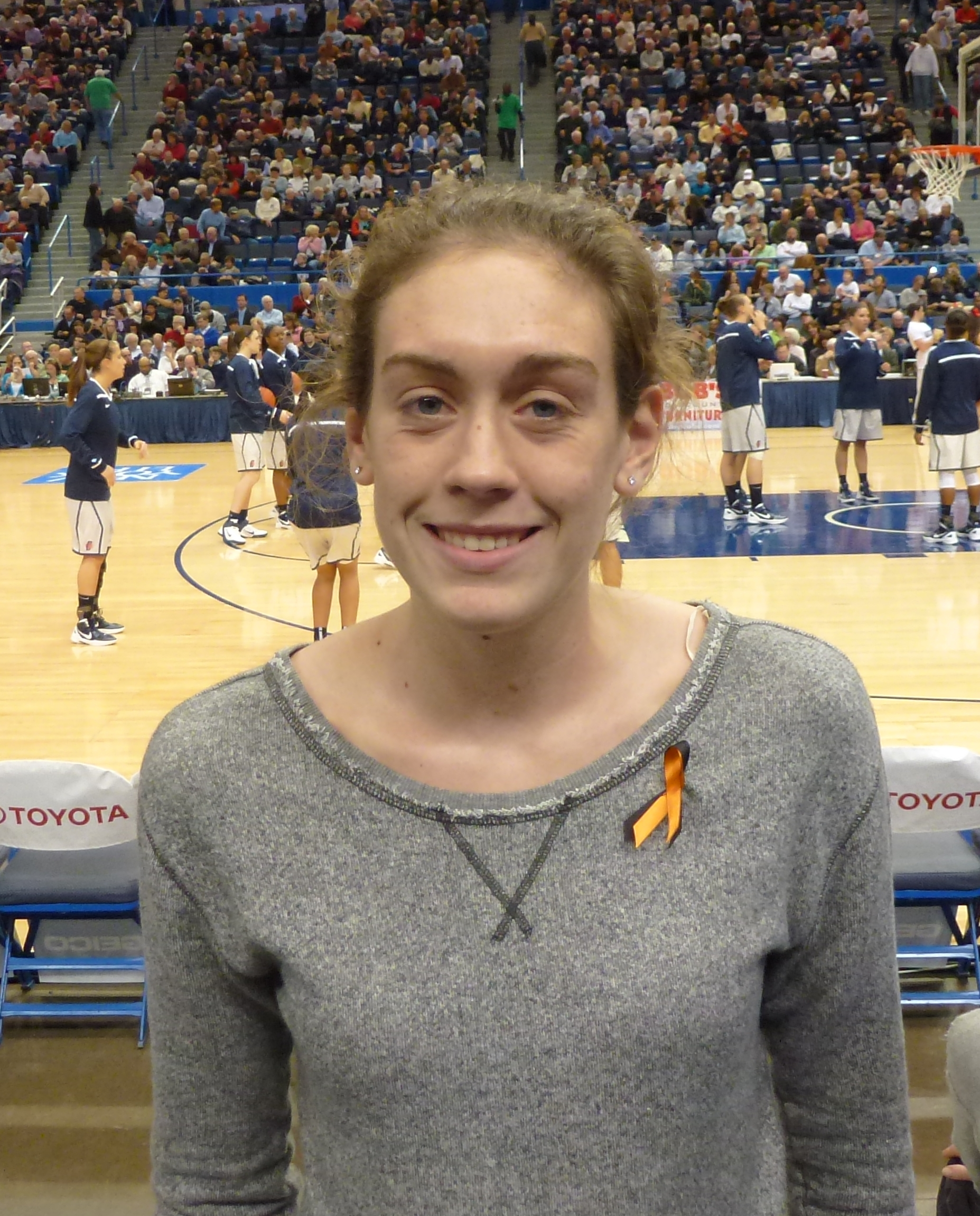 Breanna Stewart, in attendance at the UConn Stanford game in Hartford CT 21 November 2011